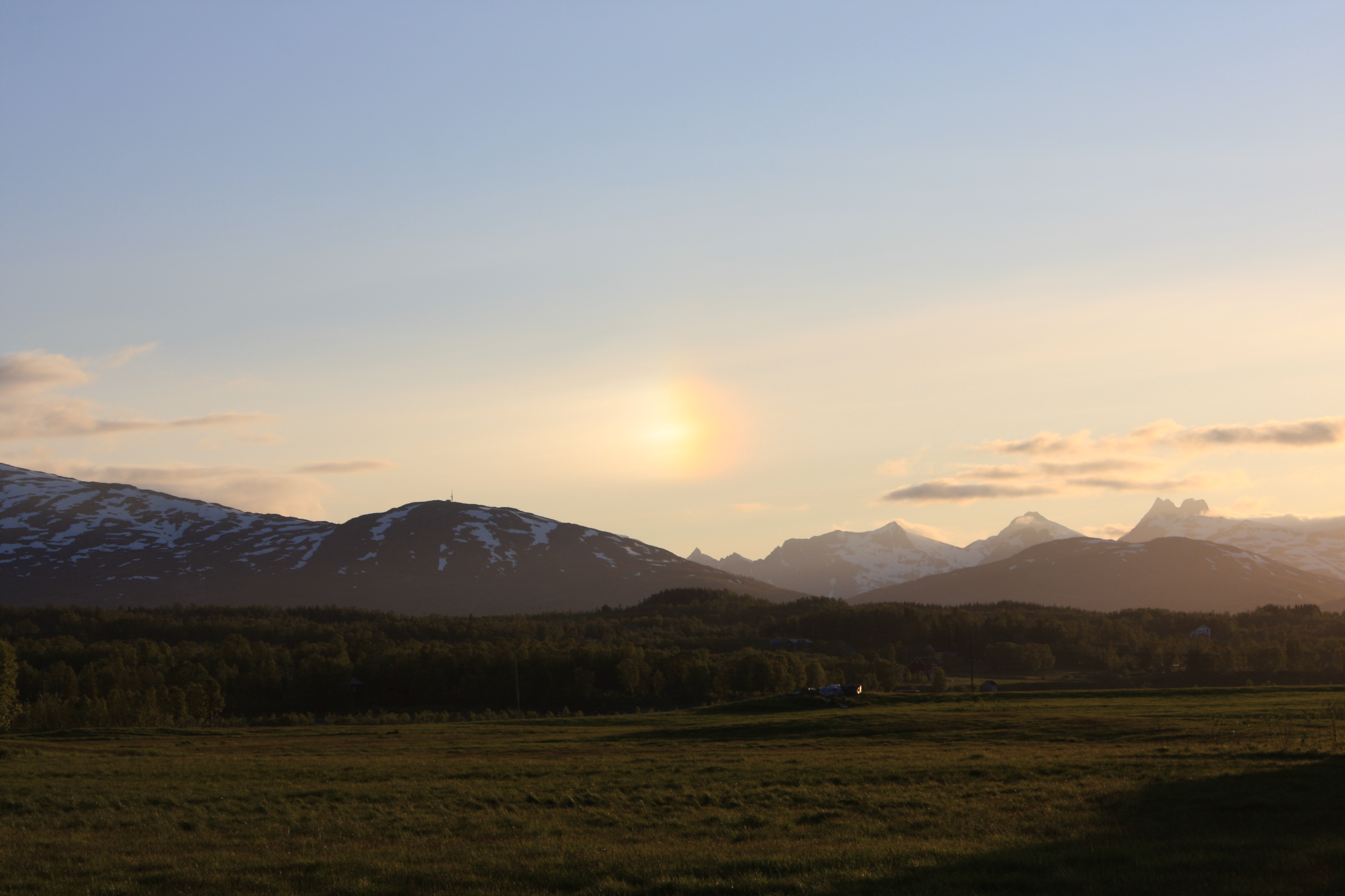 A sun dog seen from Tisnes outside of Tromsø, Norway. (The real sun is outside to the right of the picure).